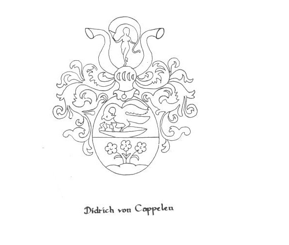 Didrich von Cappelen seal on Constitution 1814